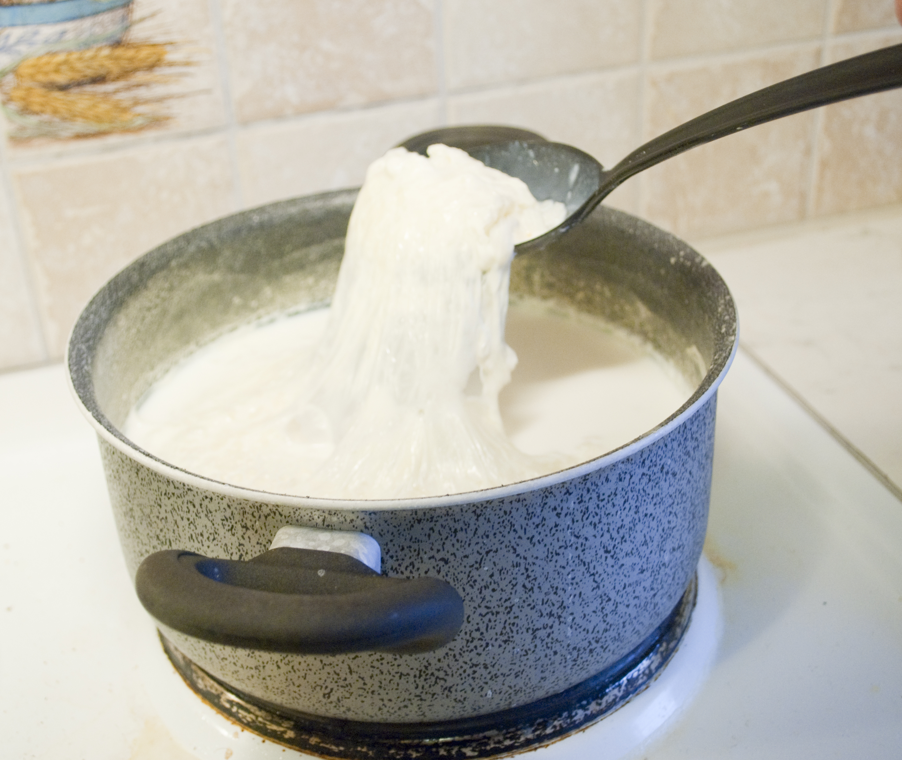 crust on rice pudding while mixing